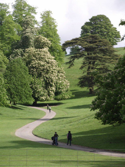 Dyrham Park The road to the car park winds up the valley before twisting up the hill. Taken from inside the orangery at Dyrham House.